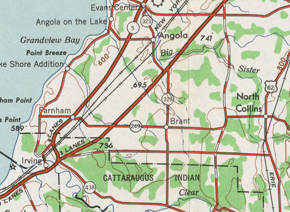 1948 topographic section of former New York State Route 323